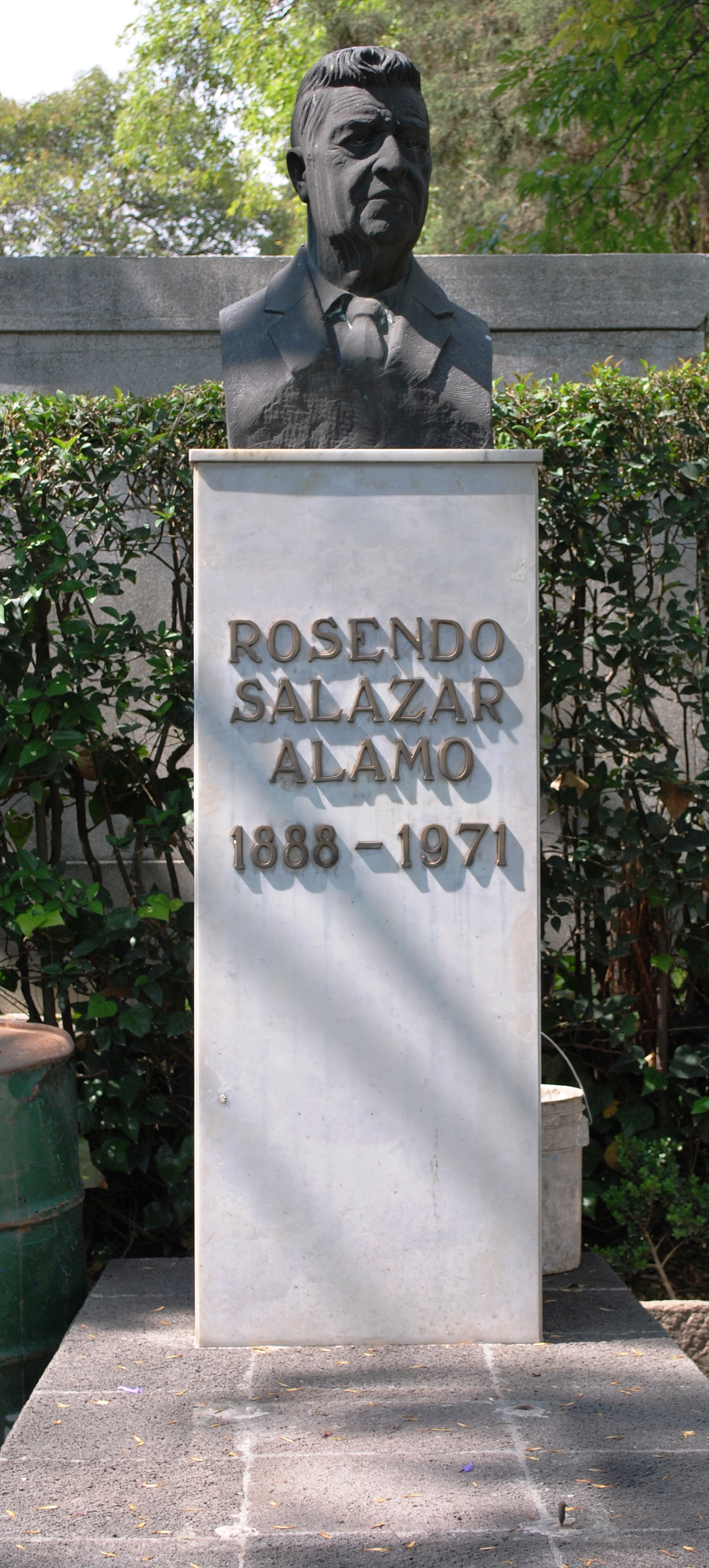 Tomb of Rosend Salazar Alamo at the Panteon Civil de Dolores cemetery in Mexico City